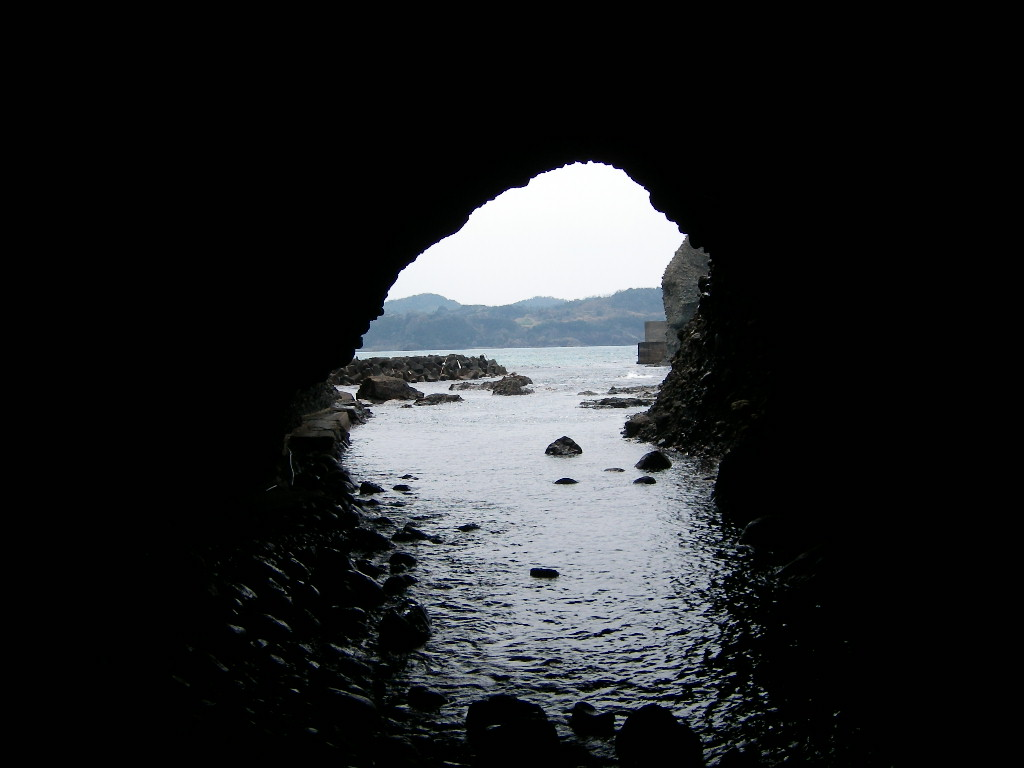 A sea cave of Tatami-ga-ura.